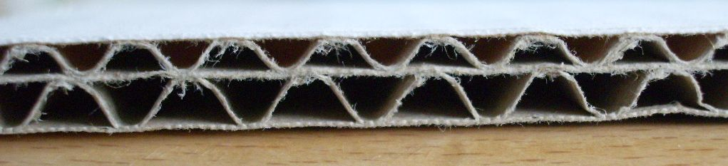 Picture of Corrugated Board double layer with B-Flute and C-Flute Own work, Picture made on 24th of March by User:Londenp